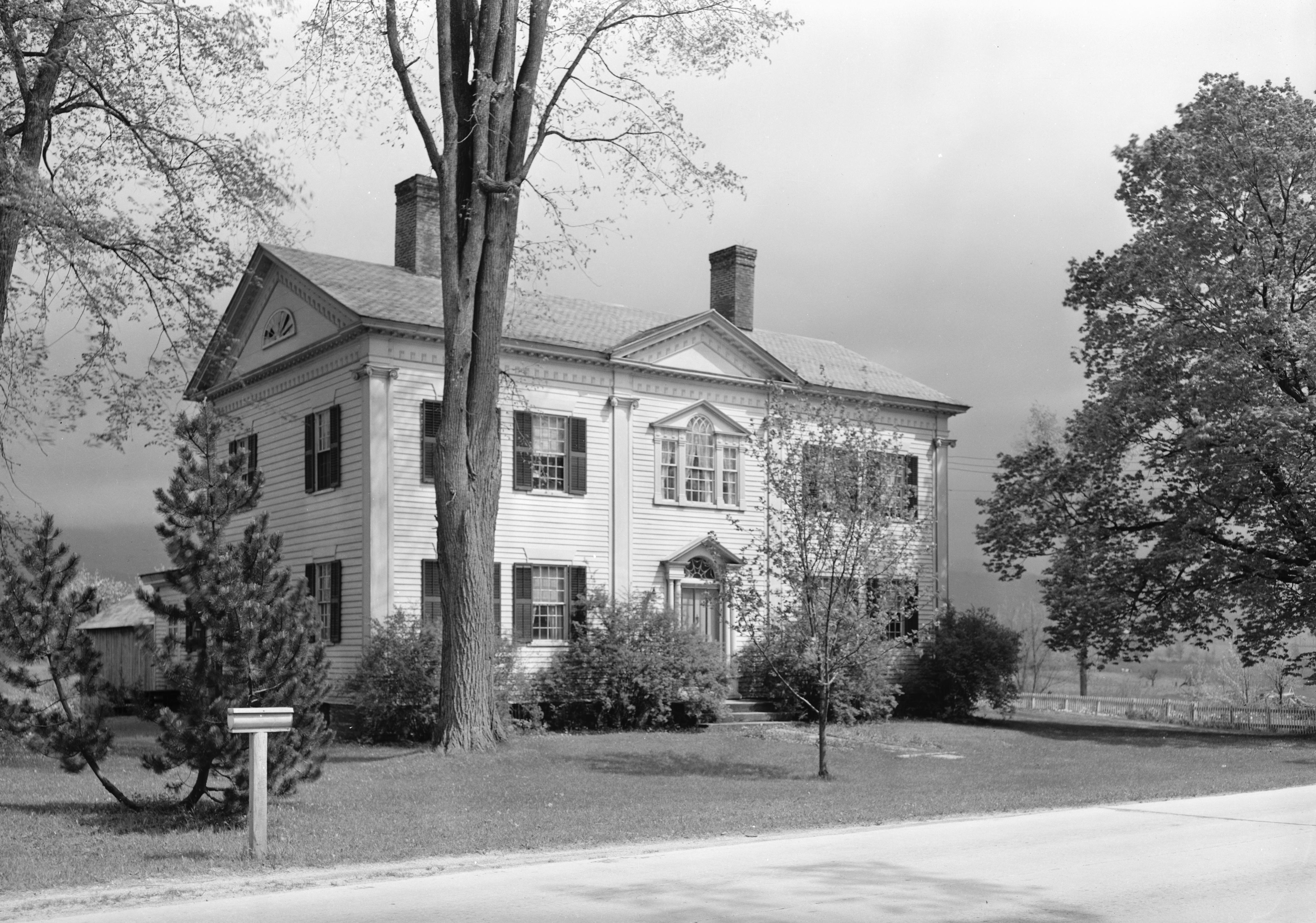 Front of the Munro-Hawkins House, located along U.S. Route 7 south of Shaftsbury Center, Vermont, United States. Built in 1807, it is listed on the National Register of Historic Places.